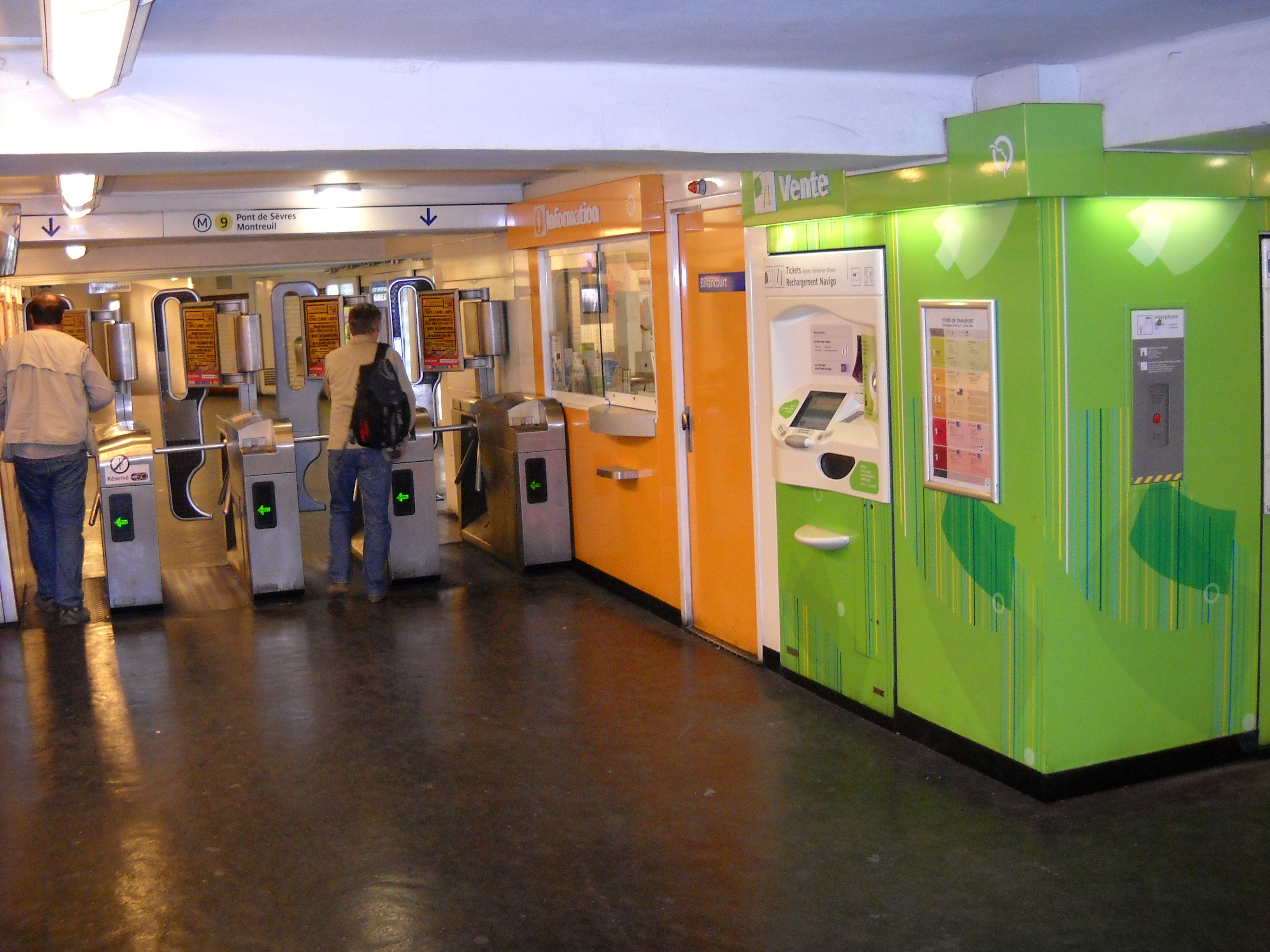 Billancourt station, on Paris metro line 9.